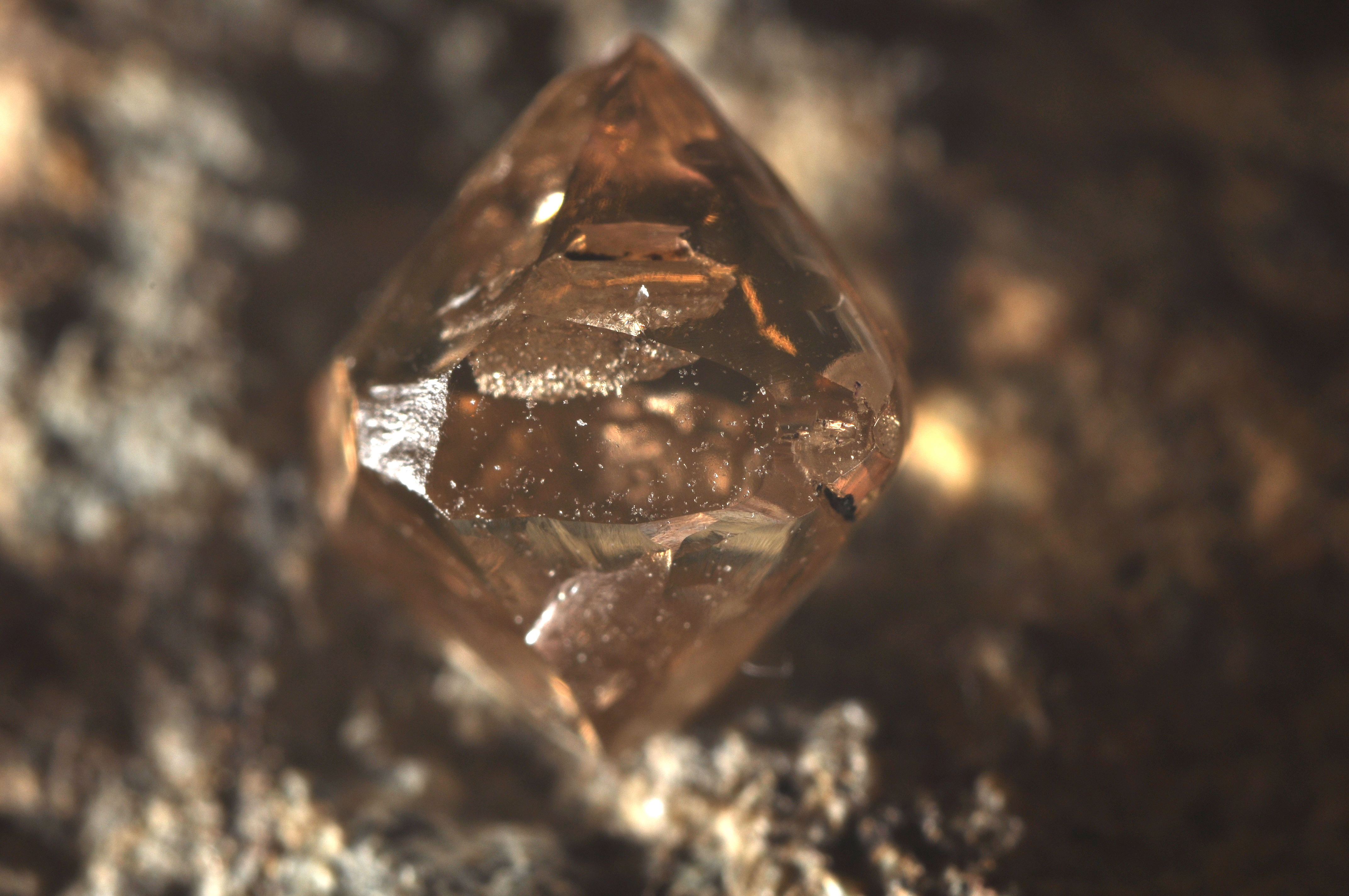 Smoky diamond